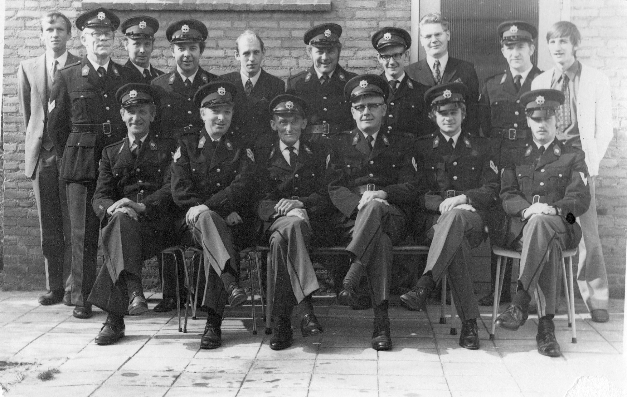 Groep reservisten, jaren 60-70 van de 20e eeuw, van het politiekorps in Deurne (NL).